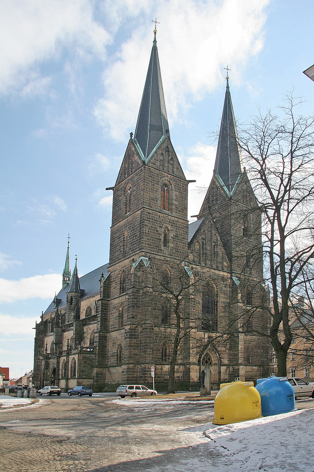 St Lawrence church in Vysoké Mýto, Czech Republic autor: Prazak date: 2. 3. 2006